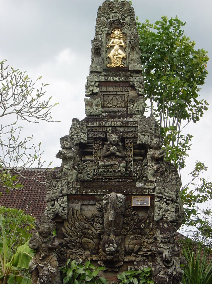 Pillar with carvings and sculpture of a dancing goddess at Pura Puseh Temple in Batuan, near Ubud on Bali.